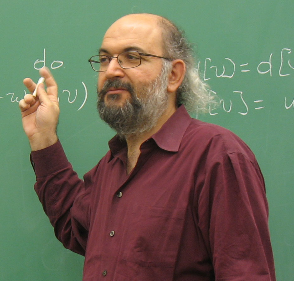 Mihalis Yannakakis teaching Analysis of Algorithms at Columbia University in 2006. This picture was taken by one of his students during class.